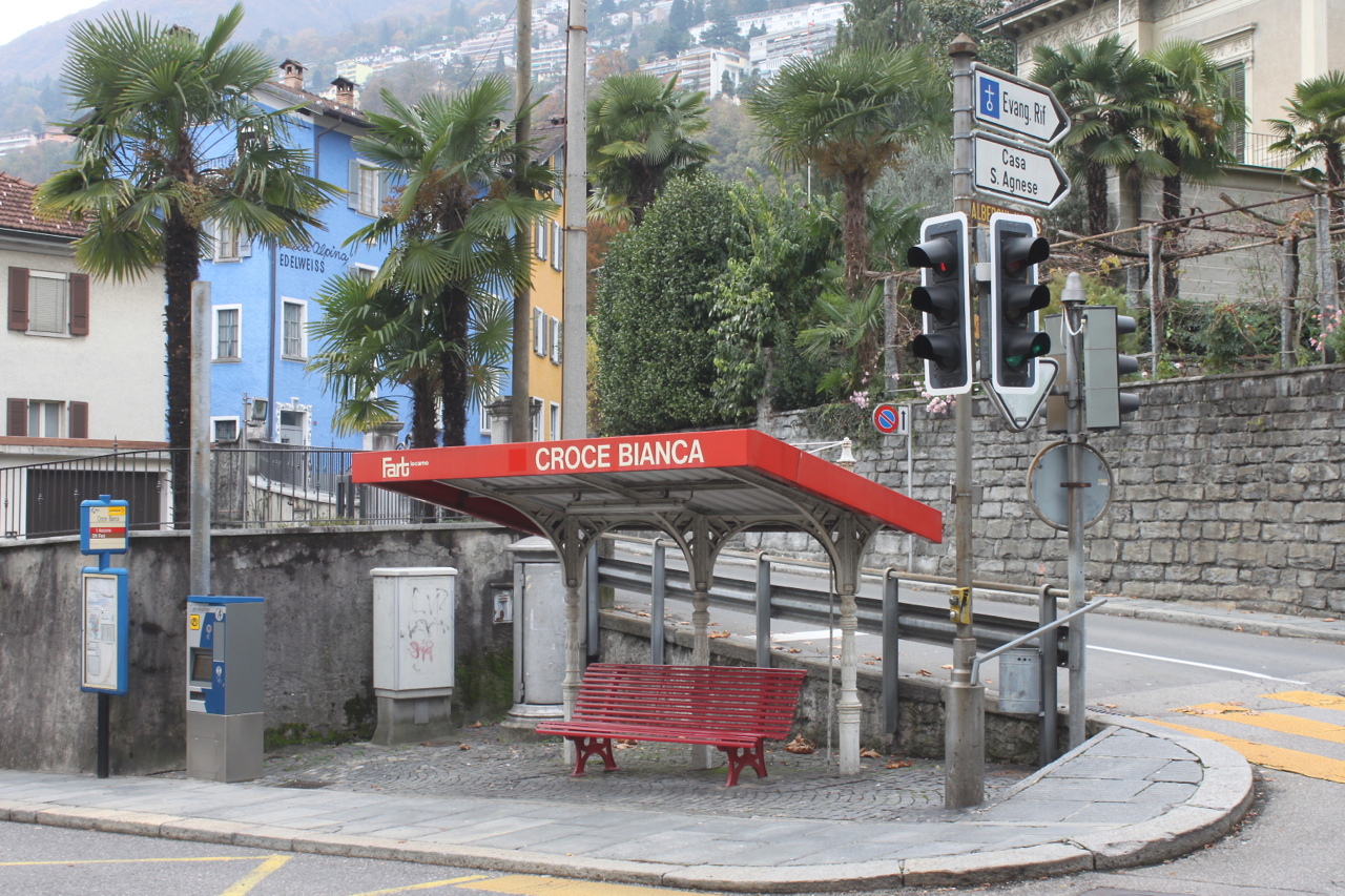 "Croce Bianca" bus stop (formerly tram stop) at Muralto.